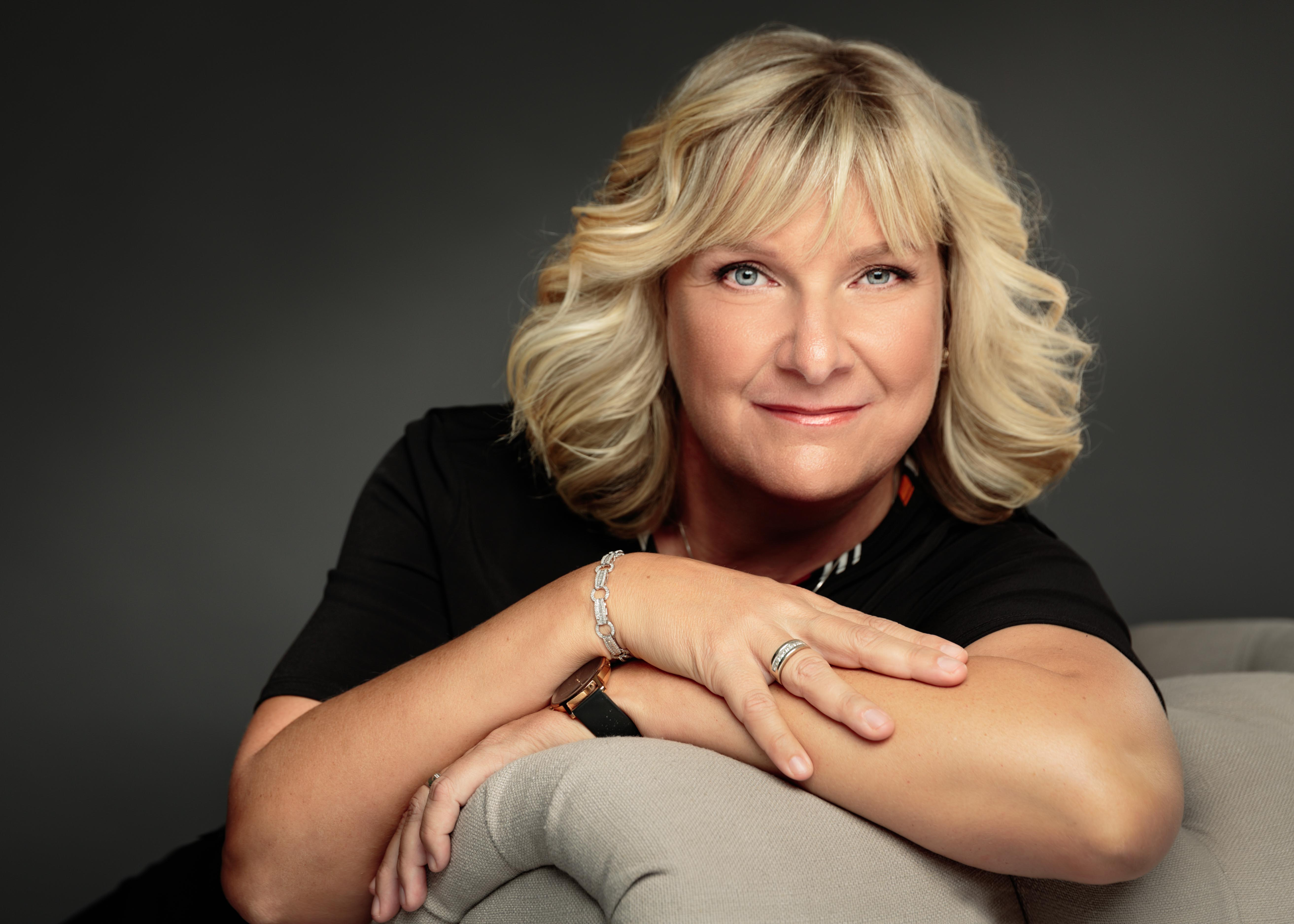 Photograph showing Mirjam Indermaur